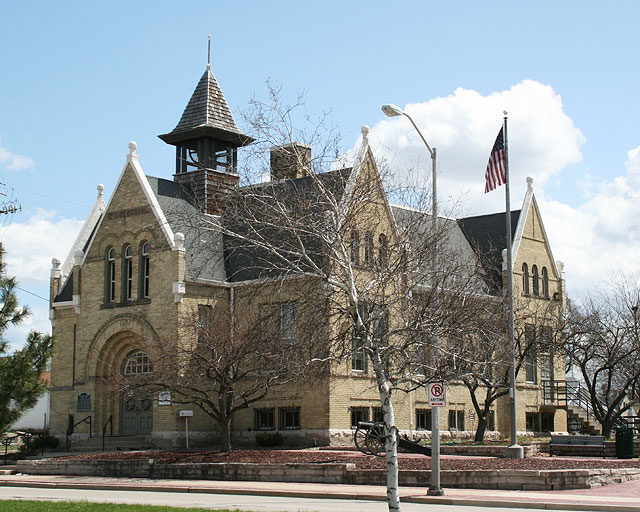 Greenfield School, West Allis. On the National Register of Historic Places. Taken and uploaded on April 22, 2009.